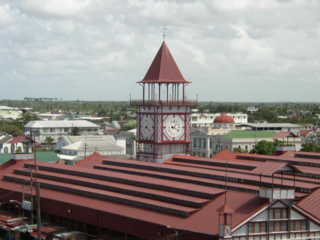 Stabroek Market Clock, Georgetown, Guyana Stabroek_Market_Clock_by_Khirsah1.jpg